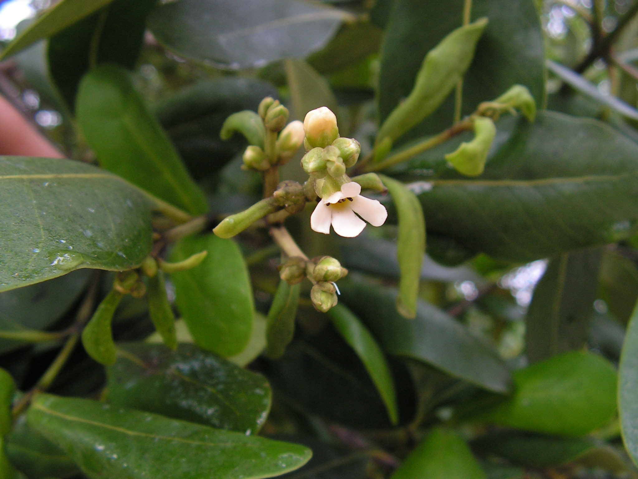 Leaves and flower of Avicennia cf. schaueriana